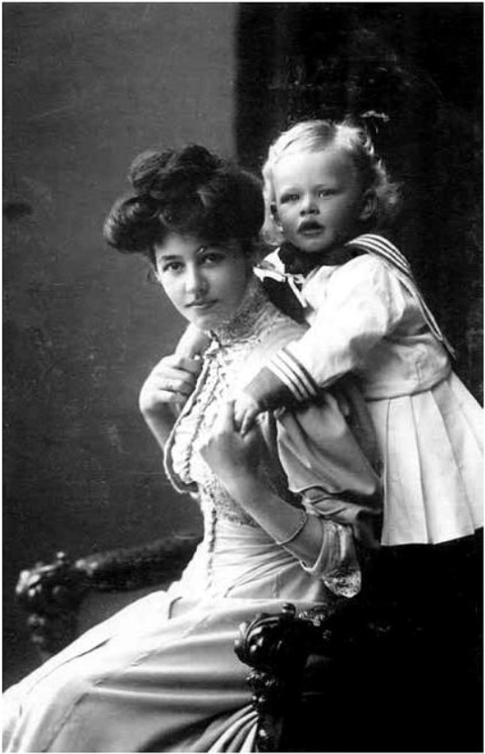 Käte Stresemann (1883–1970), wife of German Chancellor Gustav Stresemann, ca. 1906 with her son Wolfgang (born 1904)